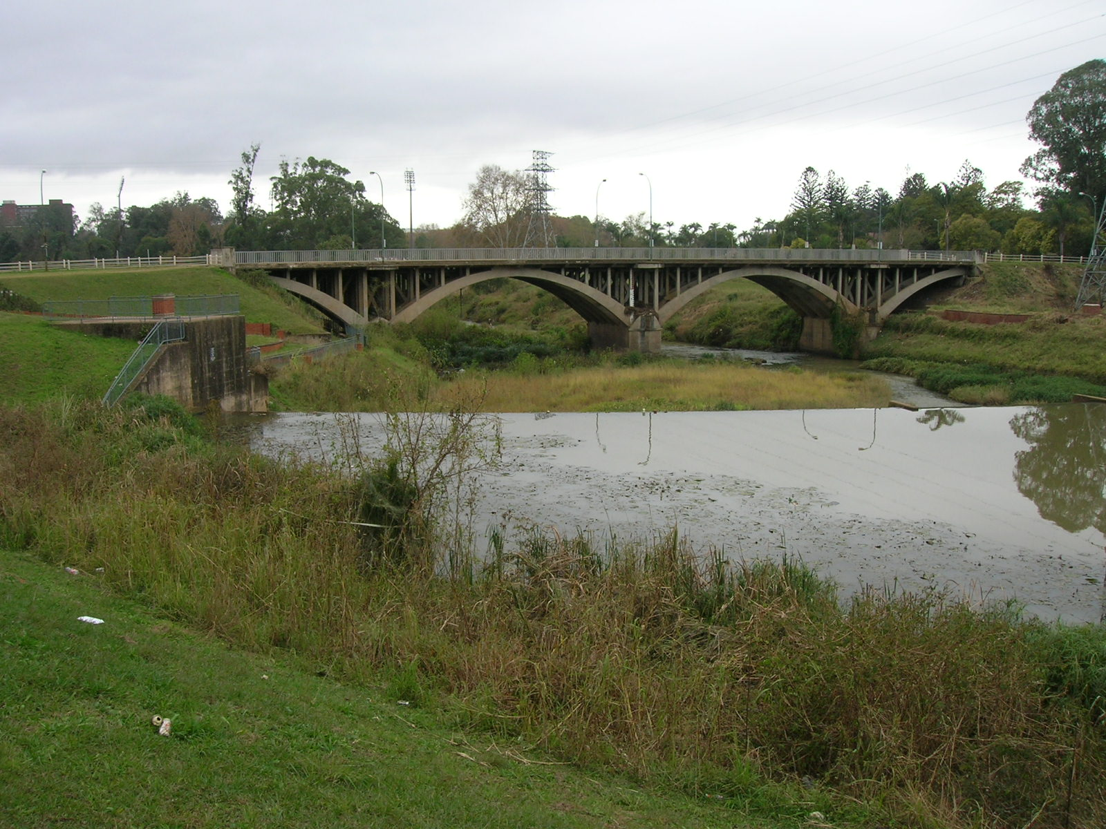 The College Road bridge over the Msunduzi River in Pietermaritzburg, South Africa